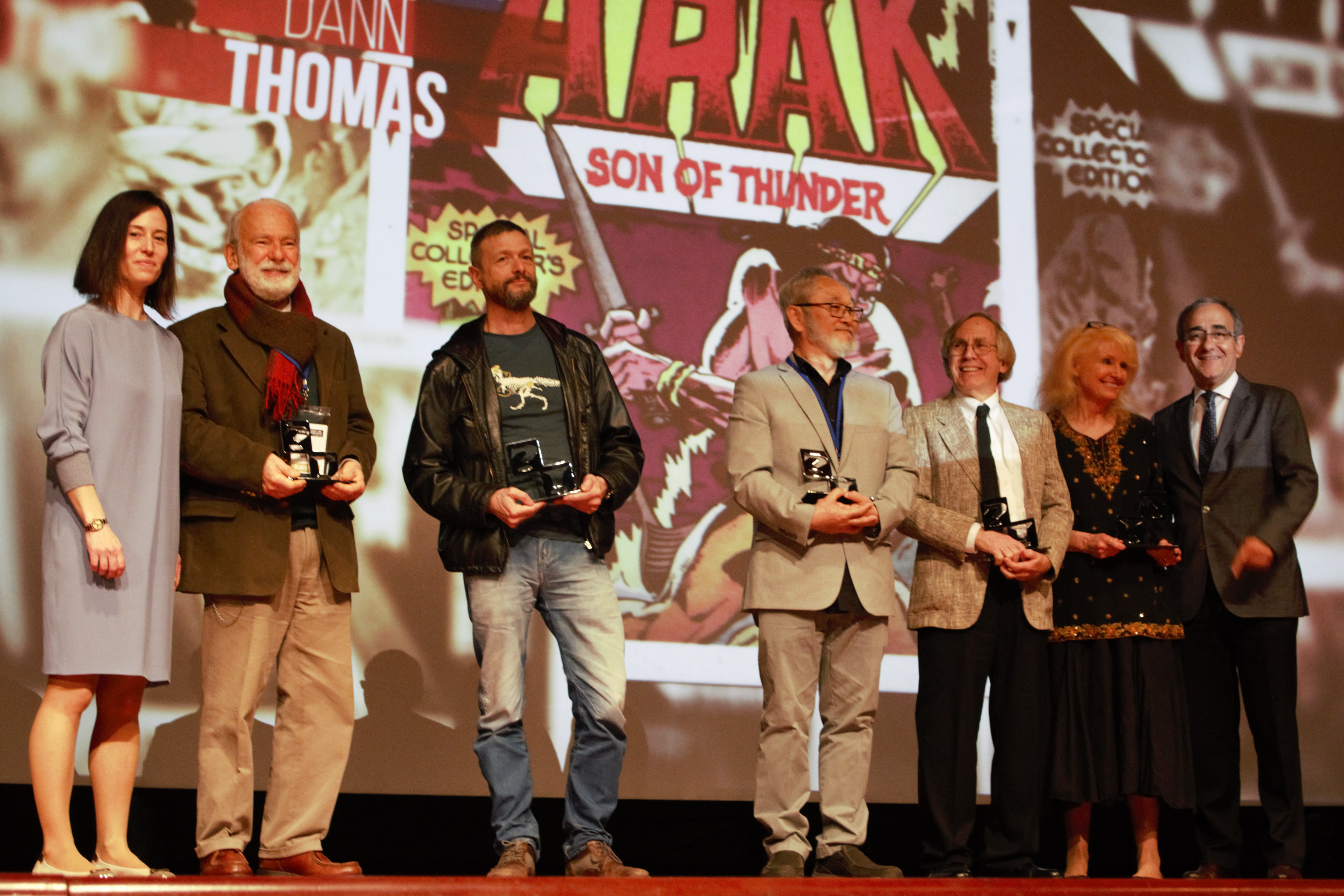 From left to right:the director of Ficomic Meritxell Puig, Vittorio Giardino, Ralf König, Stan Sakai, Roy Thomas, Dann Thomas and Patrici Tixis. Comic awards ceremony. Barcelona International Comic Fair 2018.